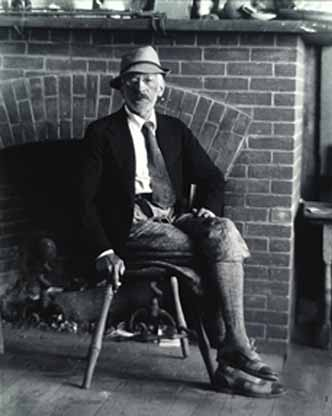 Portrait of Charles Herbert Woodbury (1864-1940)